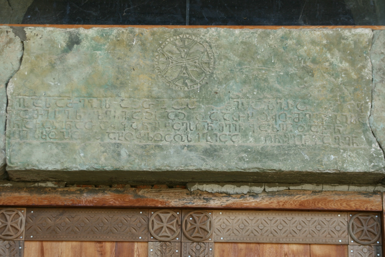 Bolnisi Sioni church. Inscription with a cross. ႨႱႠႱႠႫႤႡႨႱ ႠჂႧႠႭႺ ႼႪႨႱႠႮႤႰႭႦႫႤႴ ႠႫႨႱႤႩ ႪႤႱႨႠჂႱႠჂ ႣႠႠႧႾႭჃႧႫႤႲႼႪႨႱ ႬႠႵႠႸႨႬႠႧႠჃႷႠႬႨႱႾႺႤႱႶႬႸႤႨႼႷႠႪႤႬႣႠႥႨႬႠ ႮႨႱႩႭႮႭႱႱႠႾႭჃႪႭႺႭႱႨႢႨႺႠႶႬႸႤႨႼႷႠႪႤ� Modern Georgian: "[შეწევნითა წ΄დ] ისა სამებისაჲთა ოც წლი(სა) პეროზ მეფი[სა ზეობასა დახი] [დვა საფუფძველი] ამის ეკლესიაჲსაჲ და ათხუთმეტ წლი[სა შემდგომად] [განხეშორა ვი]ნ აქა შინა თაჳყანისხცეს ღ΄ნ შეიწყალენ და ვინ ა[მის ეკლესიაჲსა] [მაშჱნებელსა დ΄თ ე] პისკოპოსსა ხულოცოს იგიცა ღ΄ნ შეიწყალენ."